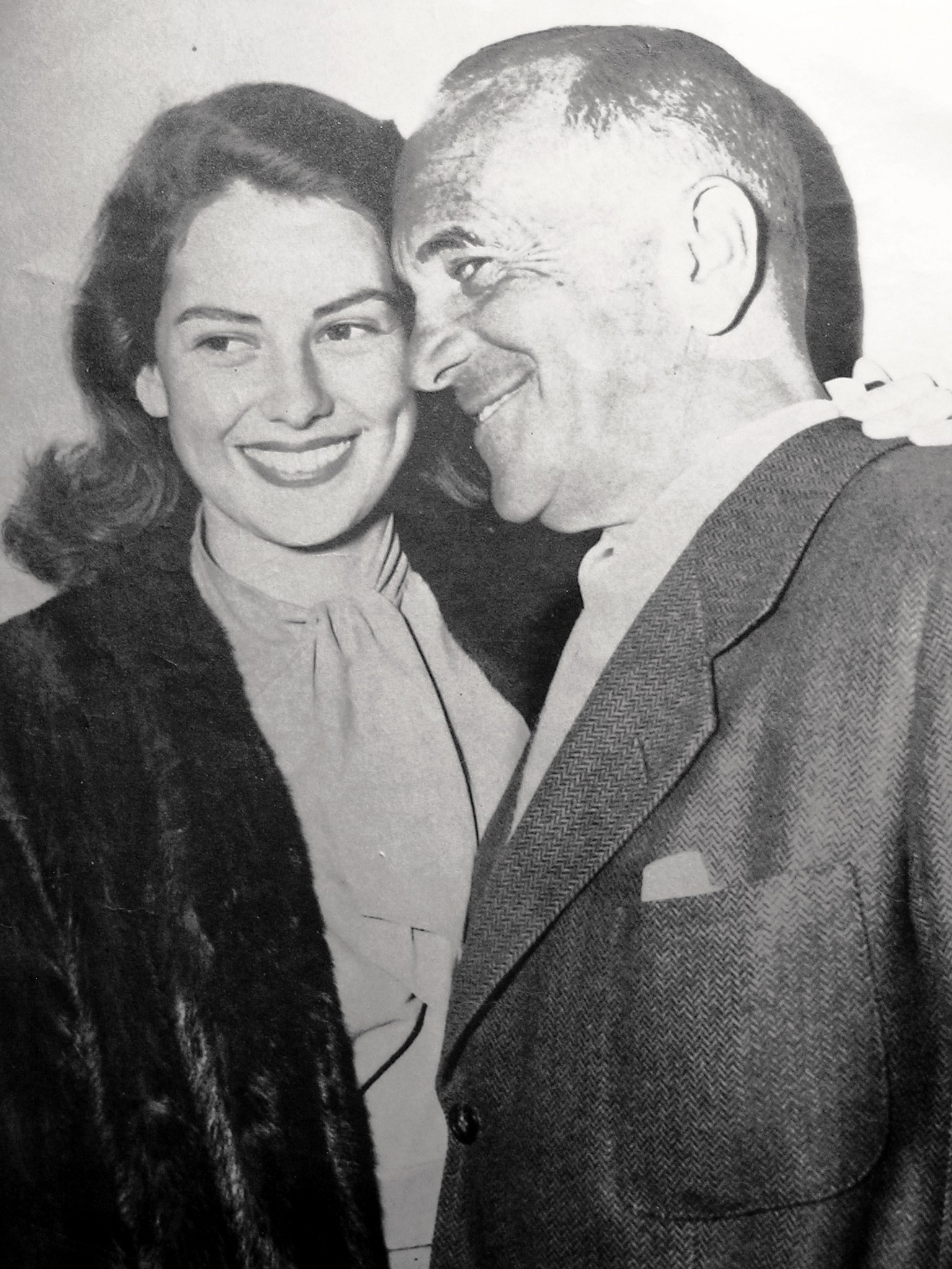 Al Jolson and wife Erle.